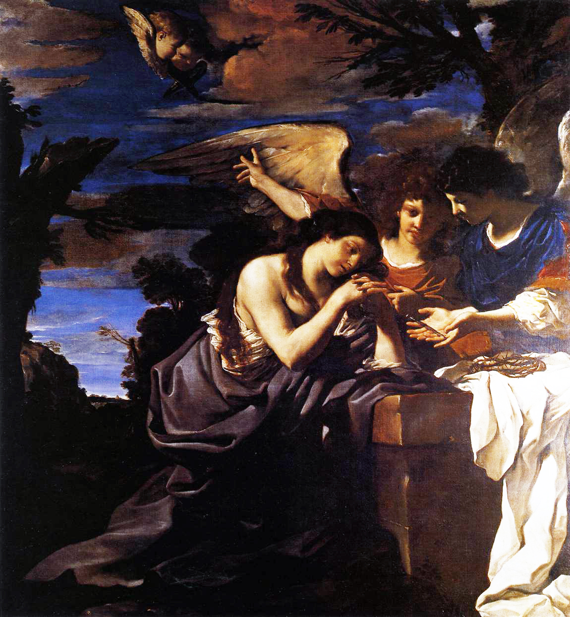 that great Lady penitent of her vanities and her errors, kneeling on hard ground praying for forgiveness for her sins, and two Angels watching over her penitence, holding before her gaze the nails with which the Redeemer was fixed to the Cross, and to indicate to her the certain hope that she should have regarding her own well-being, one of them points to Heaven and comforts her in the midst of her misery that she might gain earthly happiness (Battista Passeri, 1773, Hess 1935 ed., p. 352)